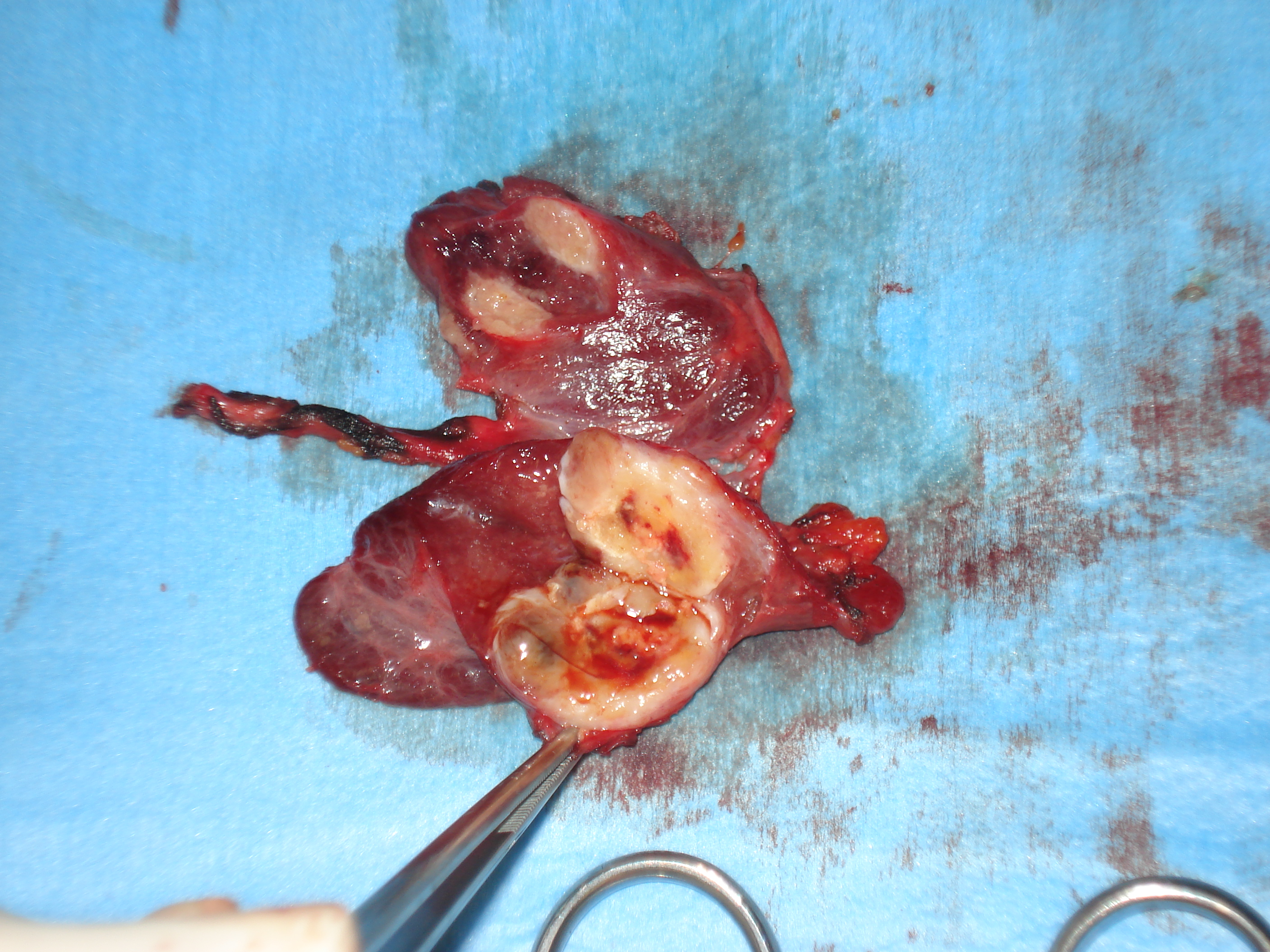 intraoperative pic of a thyroid cancer. Tumour has been cutted showing intranodule structure